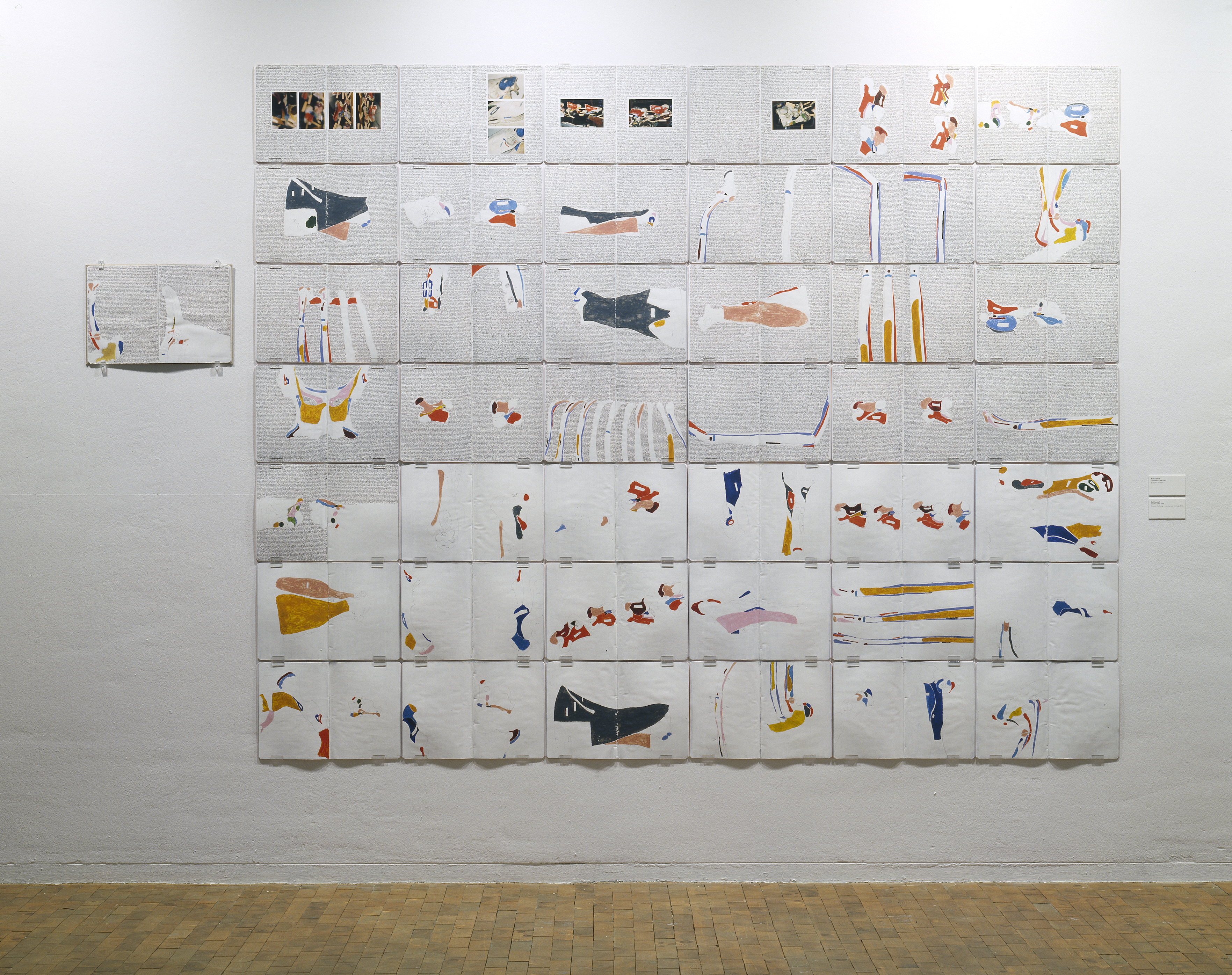 With permission by Mark Lammert.